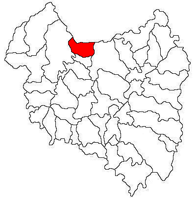 Localisation of Bixad on Covasna County's map